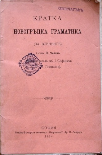 Modern Greek Grammar by Perikli Chilev